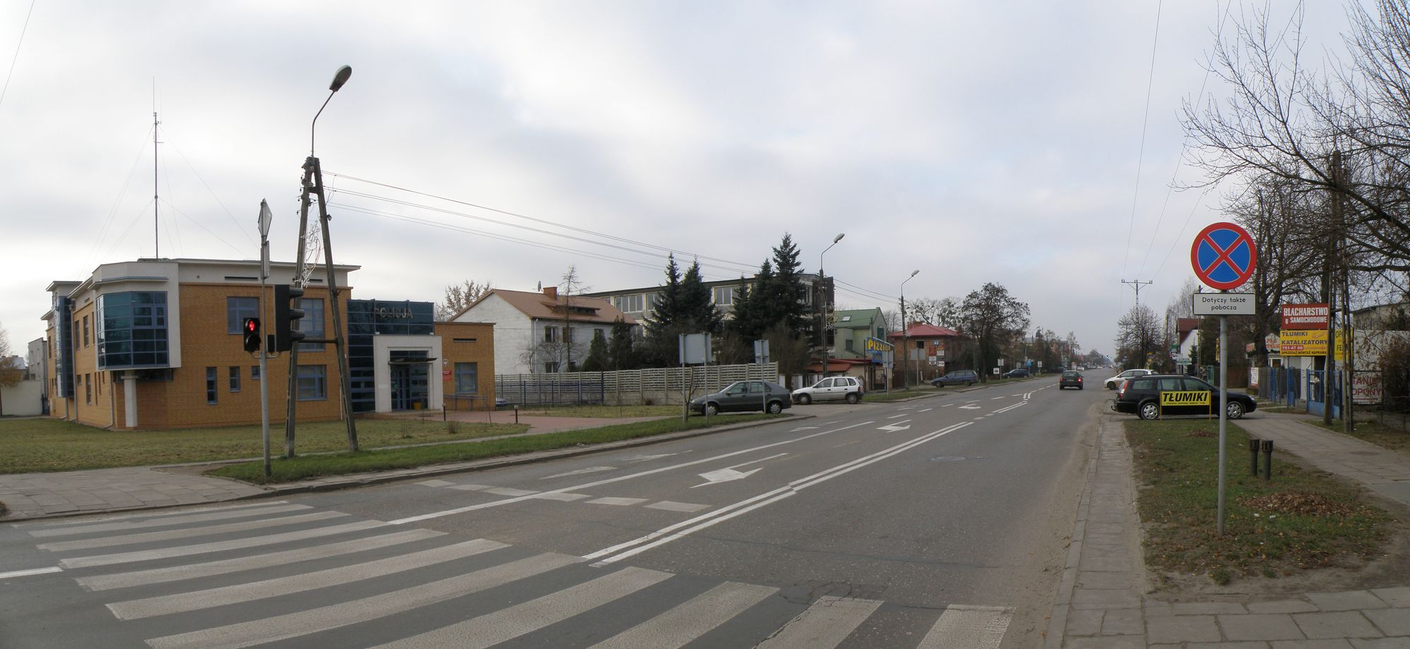 Warszawska Street in Łomianki, Poland. Town center (police station on the left)